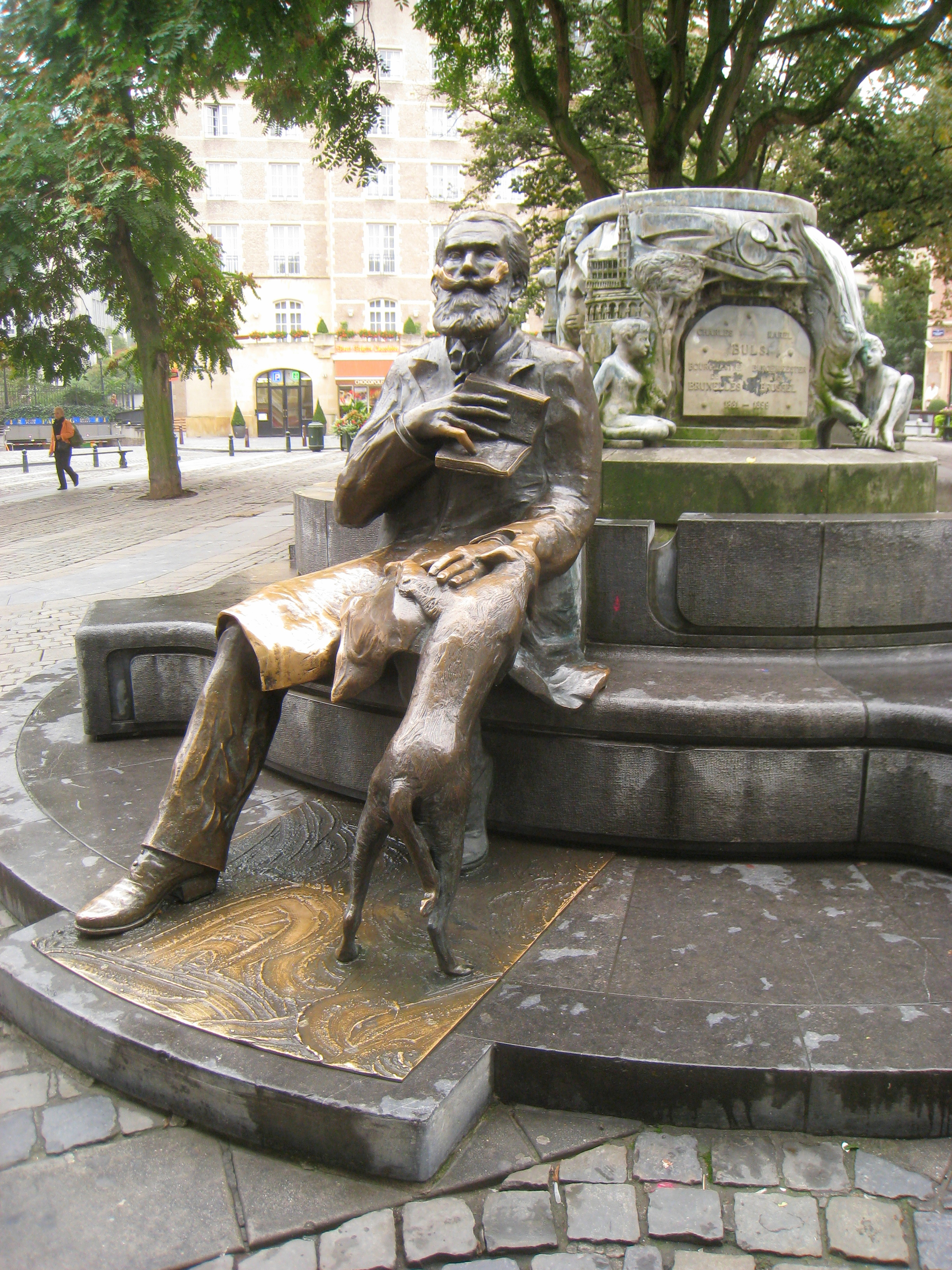 Memorial fountains for Charles Buls or Karel Buls (13 October 1837–13 July 1914), Brussels, Belgium.